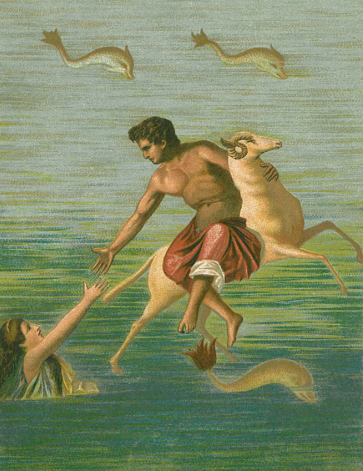 Phrixos and Helle